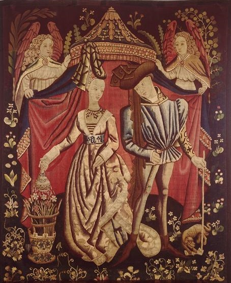 Charles & his wife Marie, or Ludovico di Savoia & his wife Anne of Cyprus.